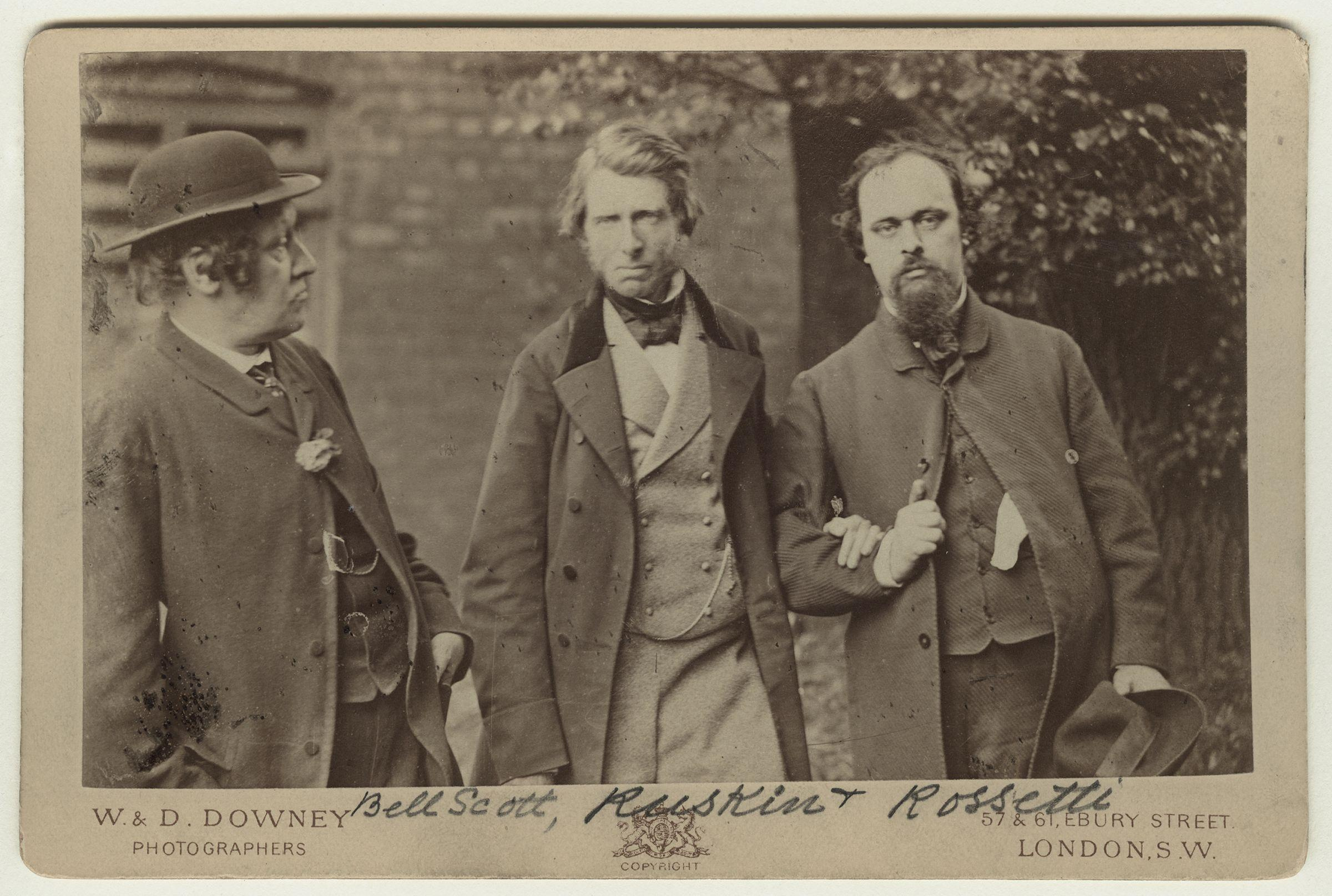 William Bell Scott; John Ruskin; Dante Gabriel Rossetti, by William Downey (died 1915). All images in this batch have been confirmed as author died before 1939 according to the official death date listed by the NPG.